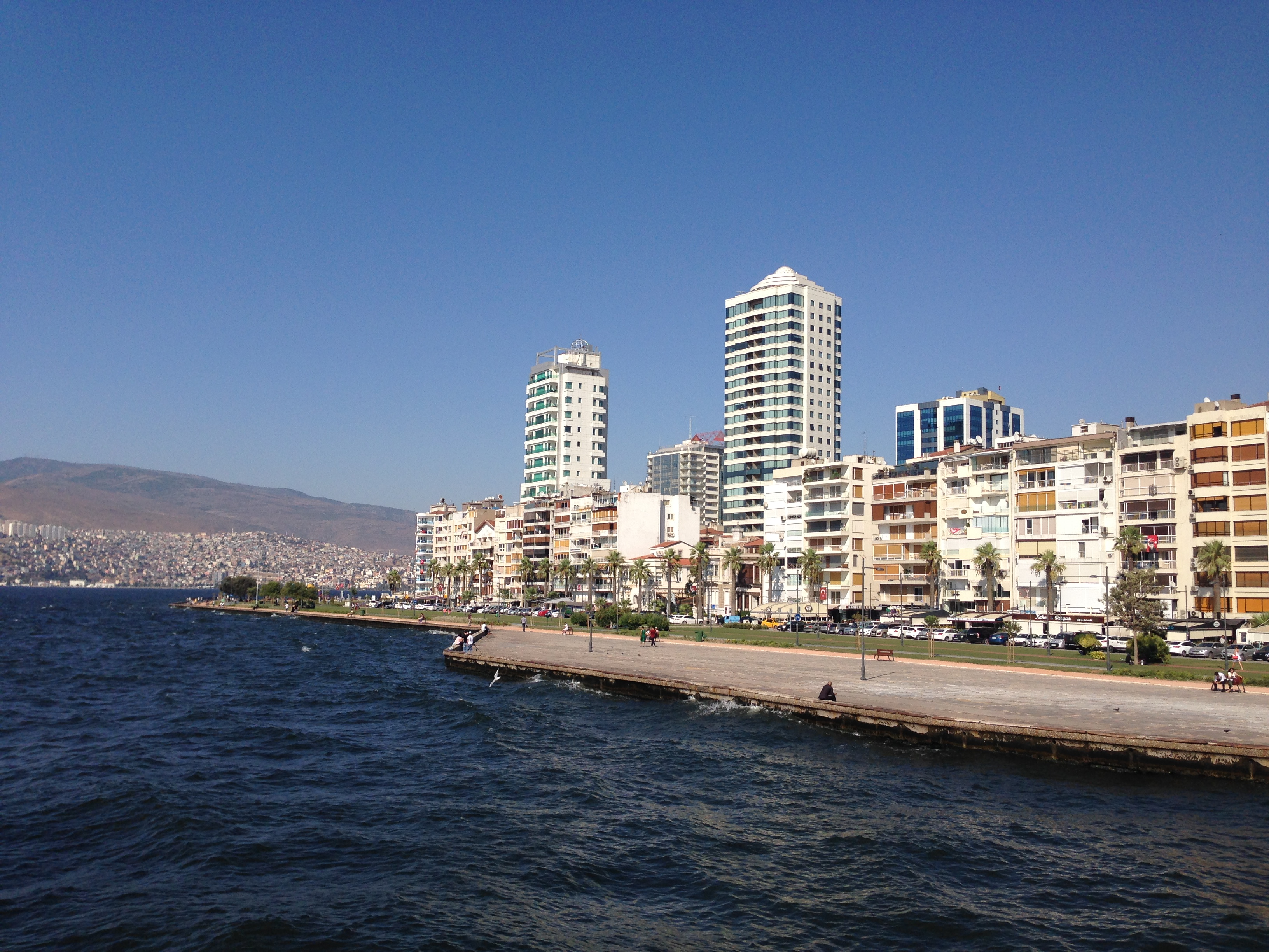 The tip of Alsancak, Konak.